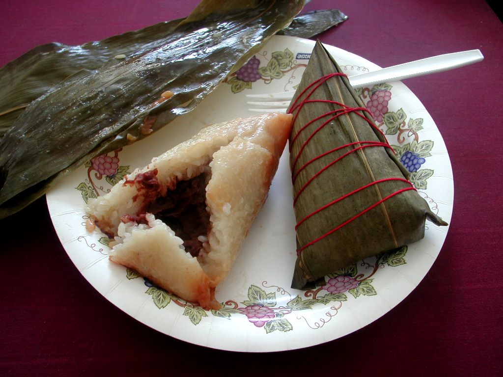 Rice Dumpling Zongzi; Taken March 10, 2005 by Allen Timothy Chang